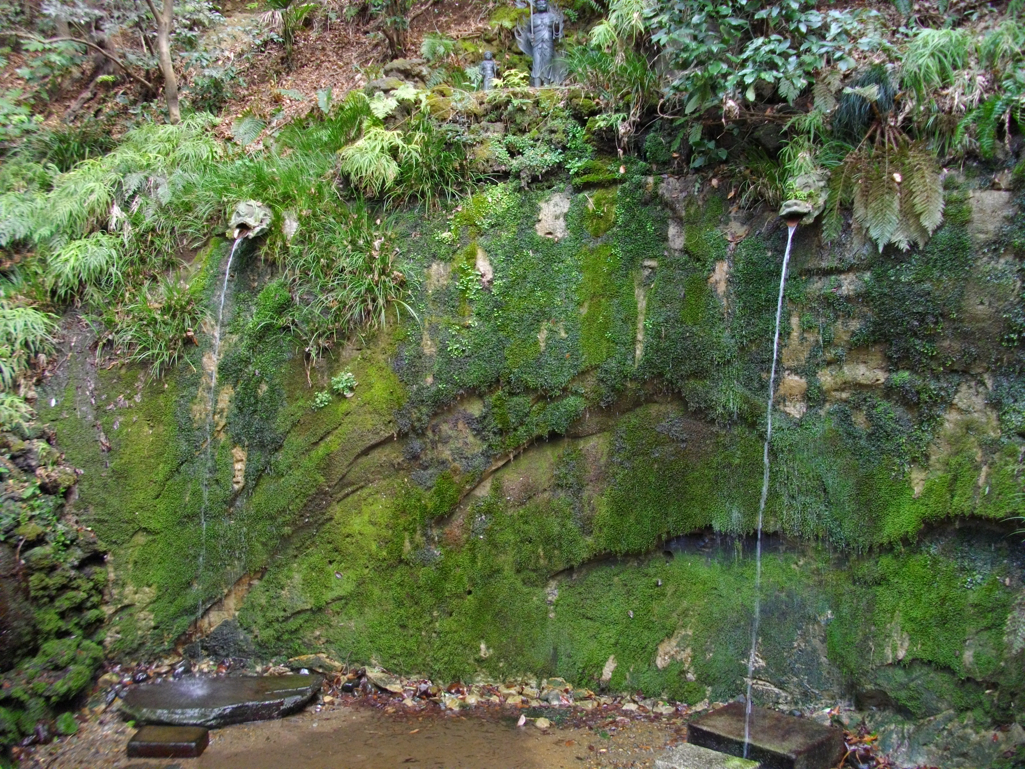 Todoroki Keikoku Fudo no Taki